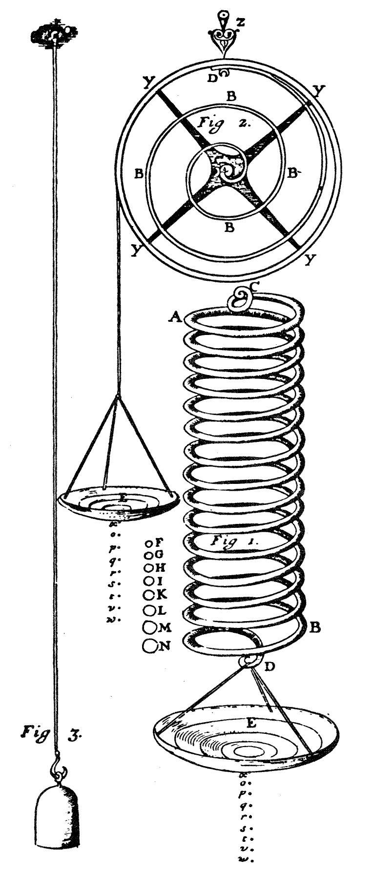 De potentia restitutiva Frontispiece (detail)